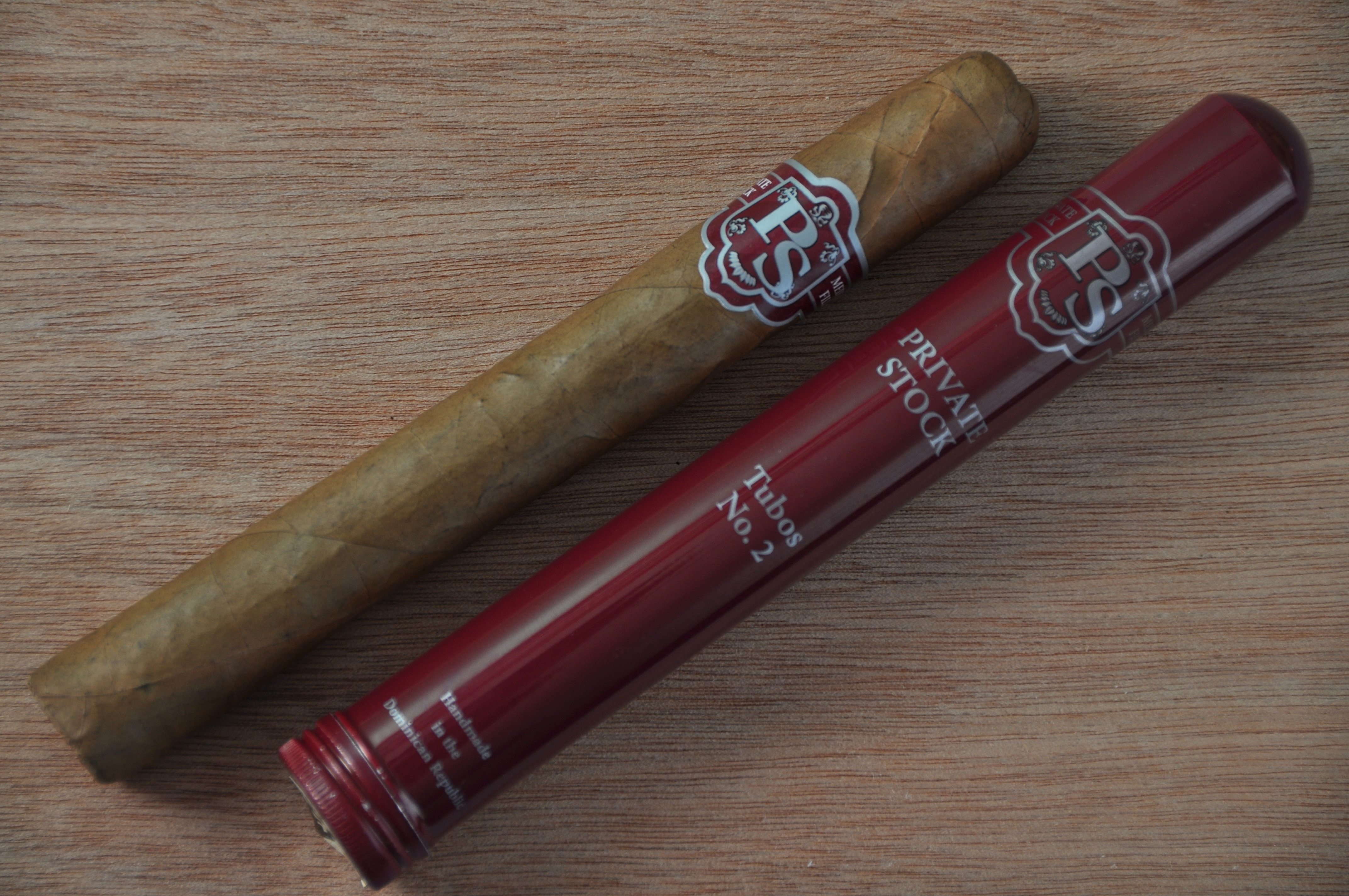 Private Stock Medium Filler Tubos No.2 Cigar